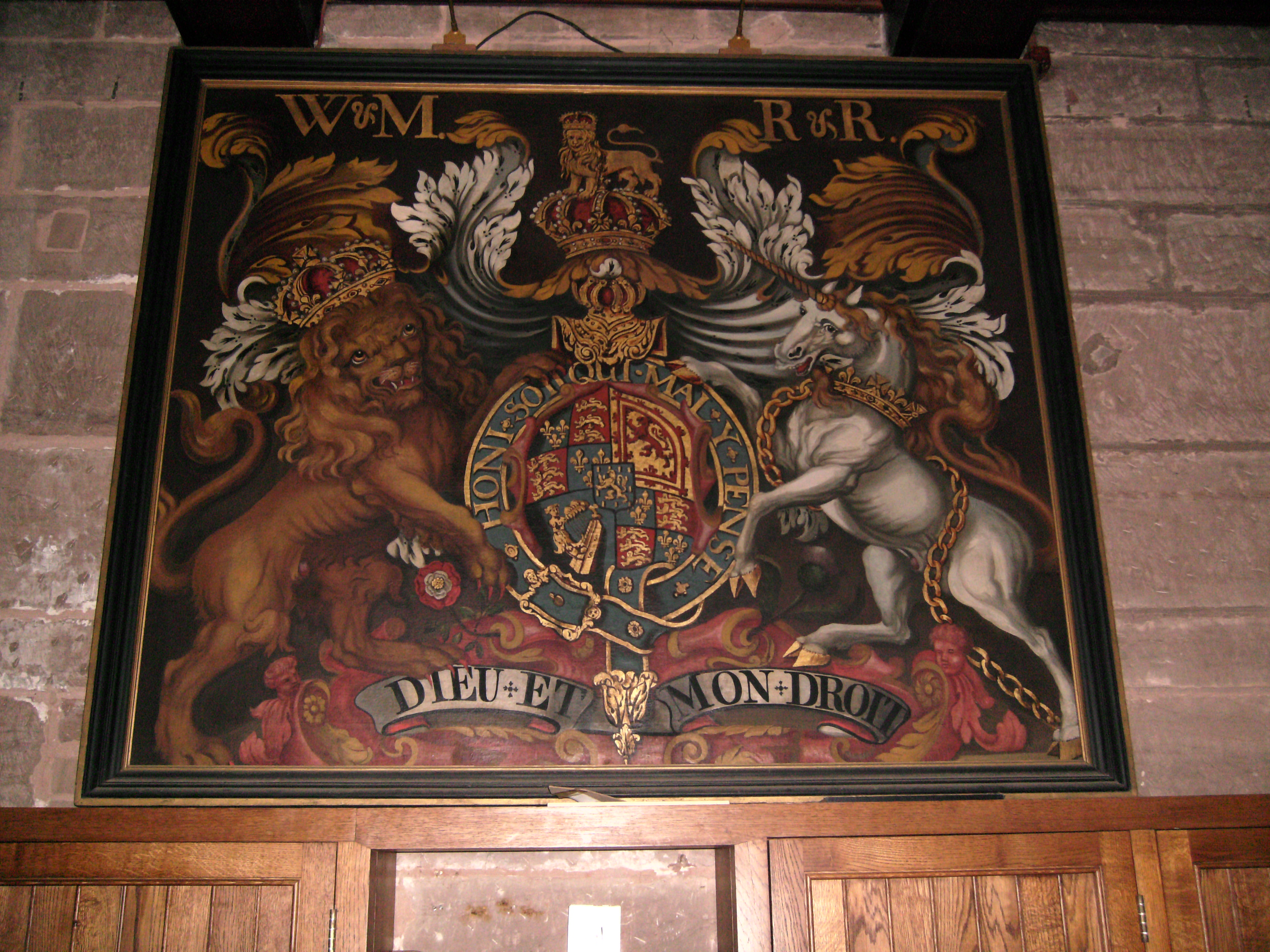 Board depicting arms of William III and Mary II at entraance to Brewood parish church, Staffordshire, England, c. 1690.